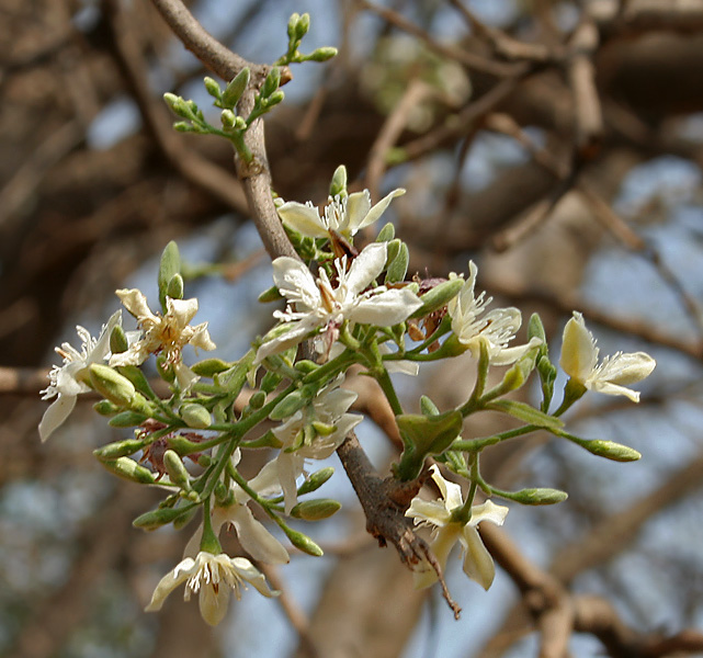 Wrightia tinctoria - Sweet Indrajao, Black indrajau, Pala indigo plant, Dyers’s oleander, Kala kuda, black indrajau, dyeing rosebay, dyers’s oleander, ivory tree, pala indigo plant, dudhalo, dudhi, indrajau, karayaja, kuda, ajamara, kalakudo, bhurevadi, bhanthappaala, kampippaala, nilappaala, asita kutaj, hyamaraka, stri kutaja, irum-palai, paalai, vet-palai, ankuduchettu, chiti-anikudu or kondajemudu in Mahavir Harina Vanasthali National Park, Hyderabad, India.